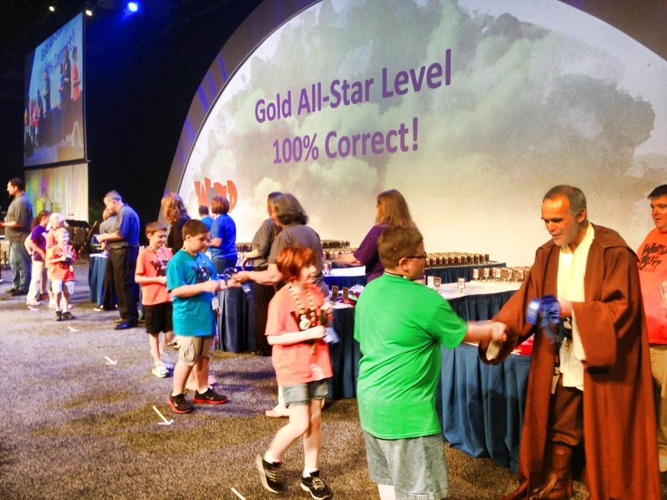 Esgrima Bíblico Infantil